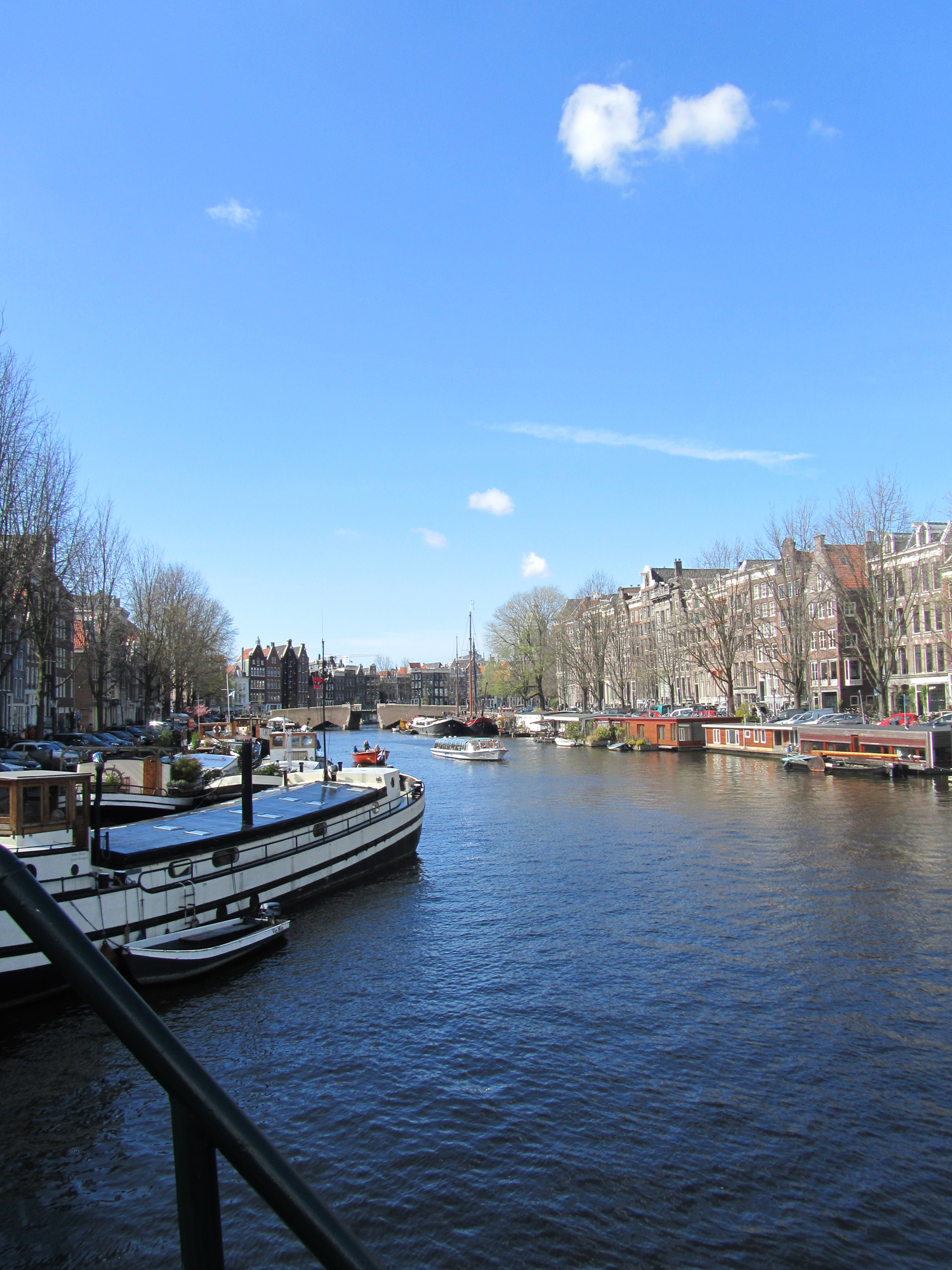 Waalseilandsgracht in Amsterdam, looking north. In the middle of the photo is the bridge Kraanboomsluisbrug, a well-known example of the architectural style Amsterdamse School.